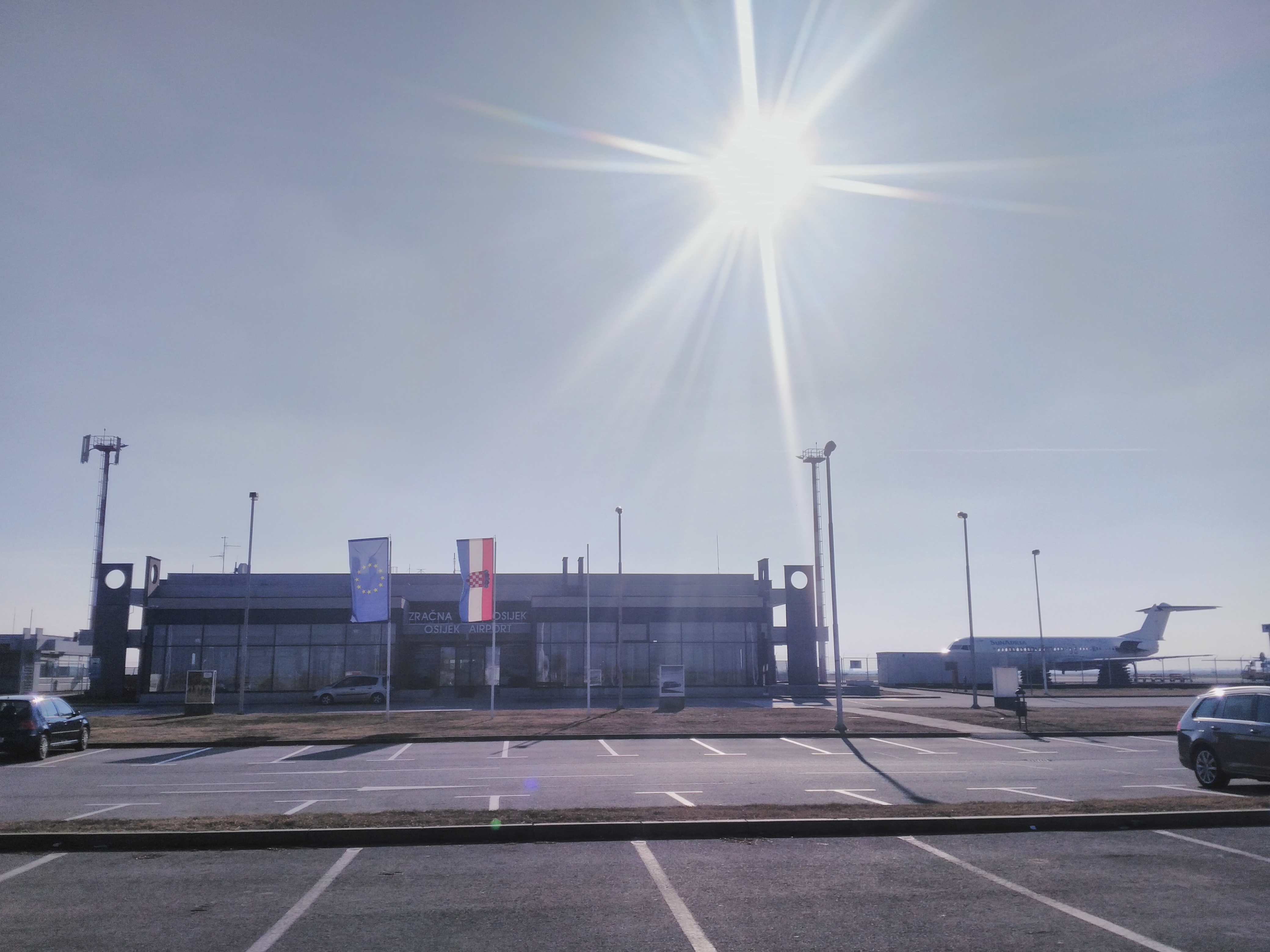 Osijek Airport